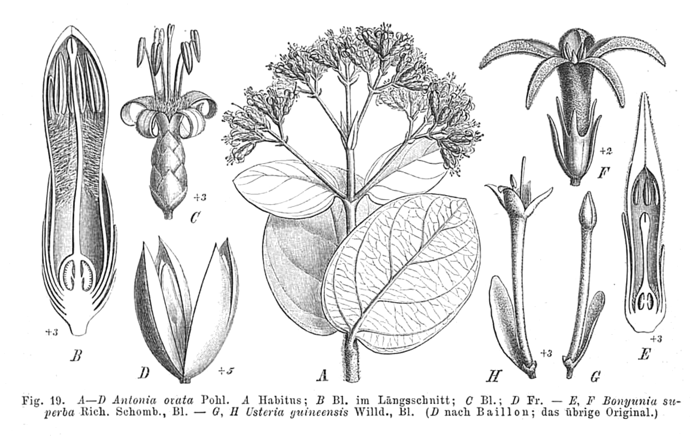 Loganiaceae spp.A-D. Antonia ovata Pohl: A. Habitus. B. Long. cut of flower. C. Flower D. Fruit.E/F. Bonyunia superba M.R.Schomb.: Flower.G/H. Usteria guineensis Willd.: Flower.